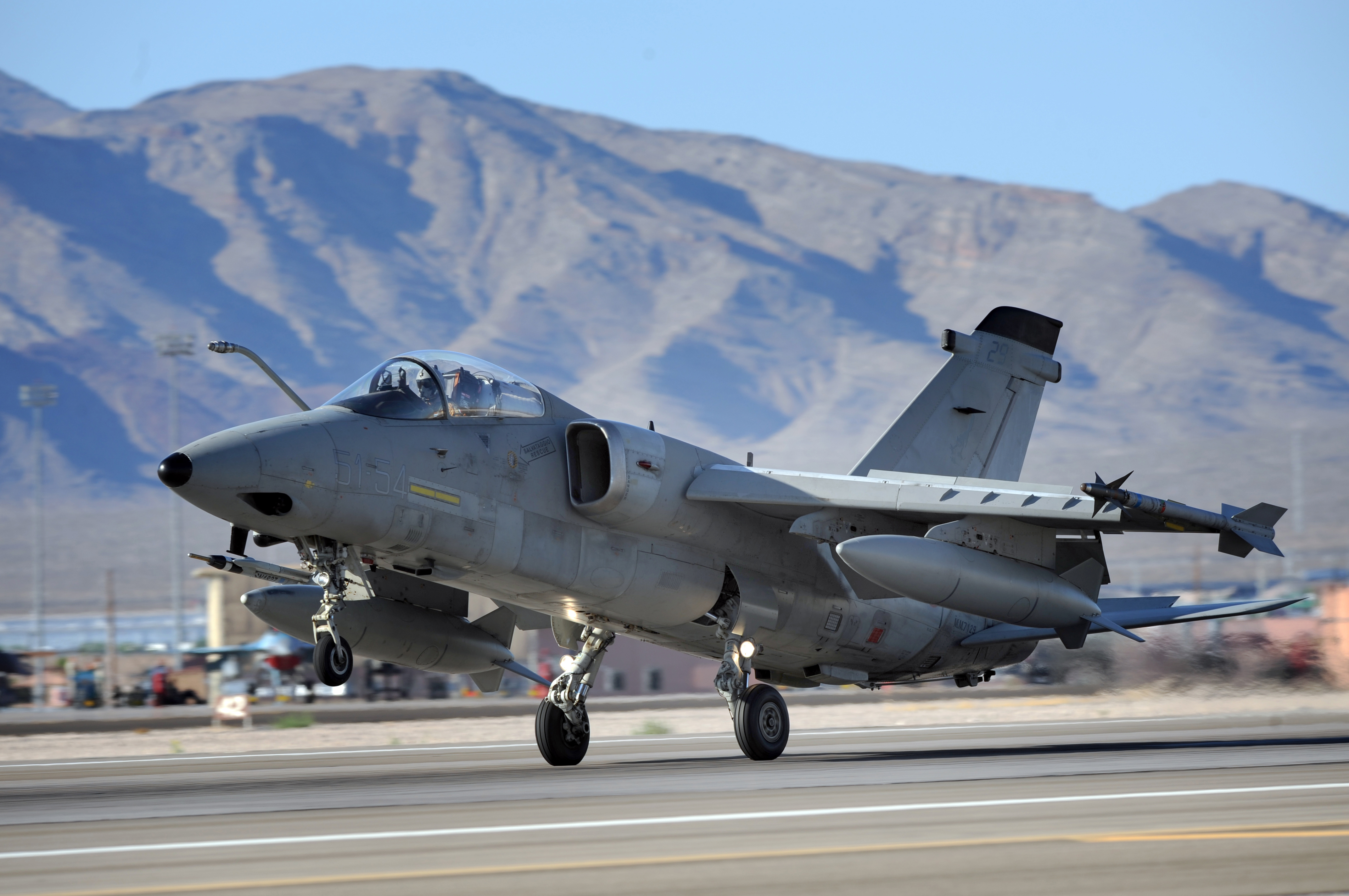 An Italian Air Force AMX fighter takes off during a Red Flag training mission Aug. 26, 2009 at Nellis Air Force Base